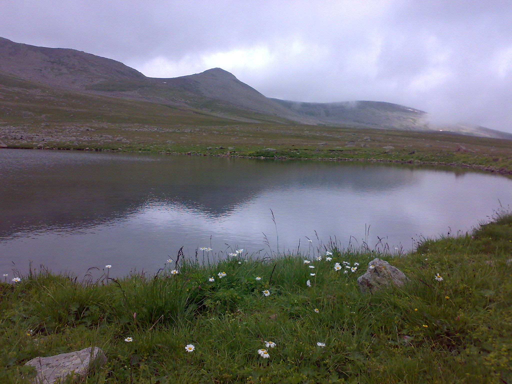 Mount. Leyli (altitude - 3157 m.): View over Keçiqıran (Kechigiran) Lake